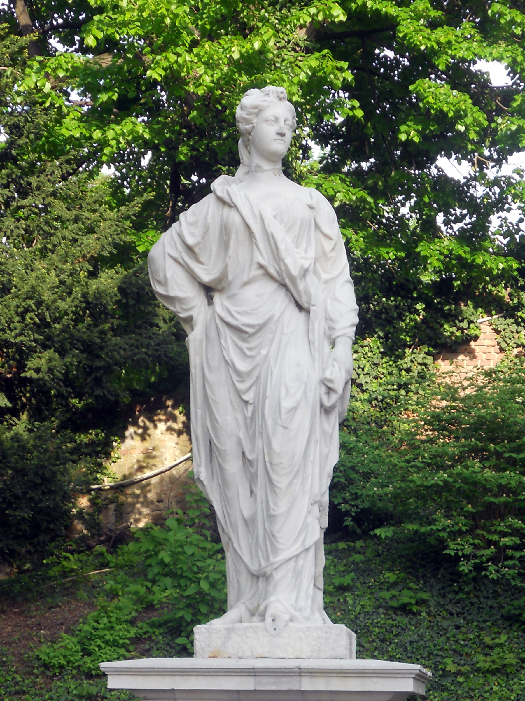 Roman Matron at Schönbrunn